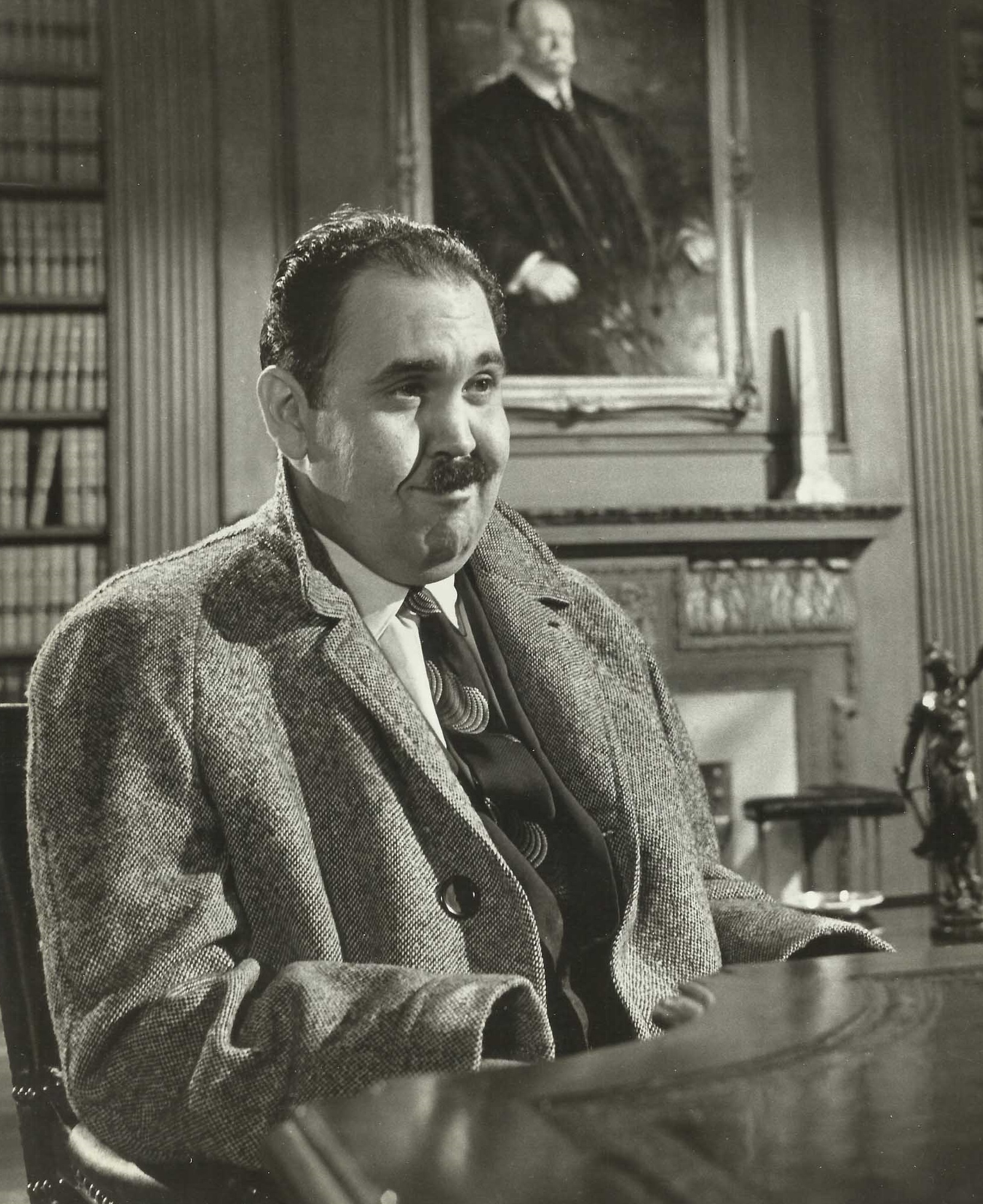 press photo of Cliff Osmond in the film The Fortune Cookie in 1966